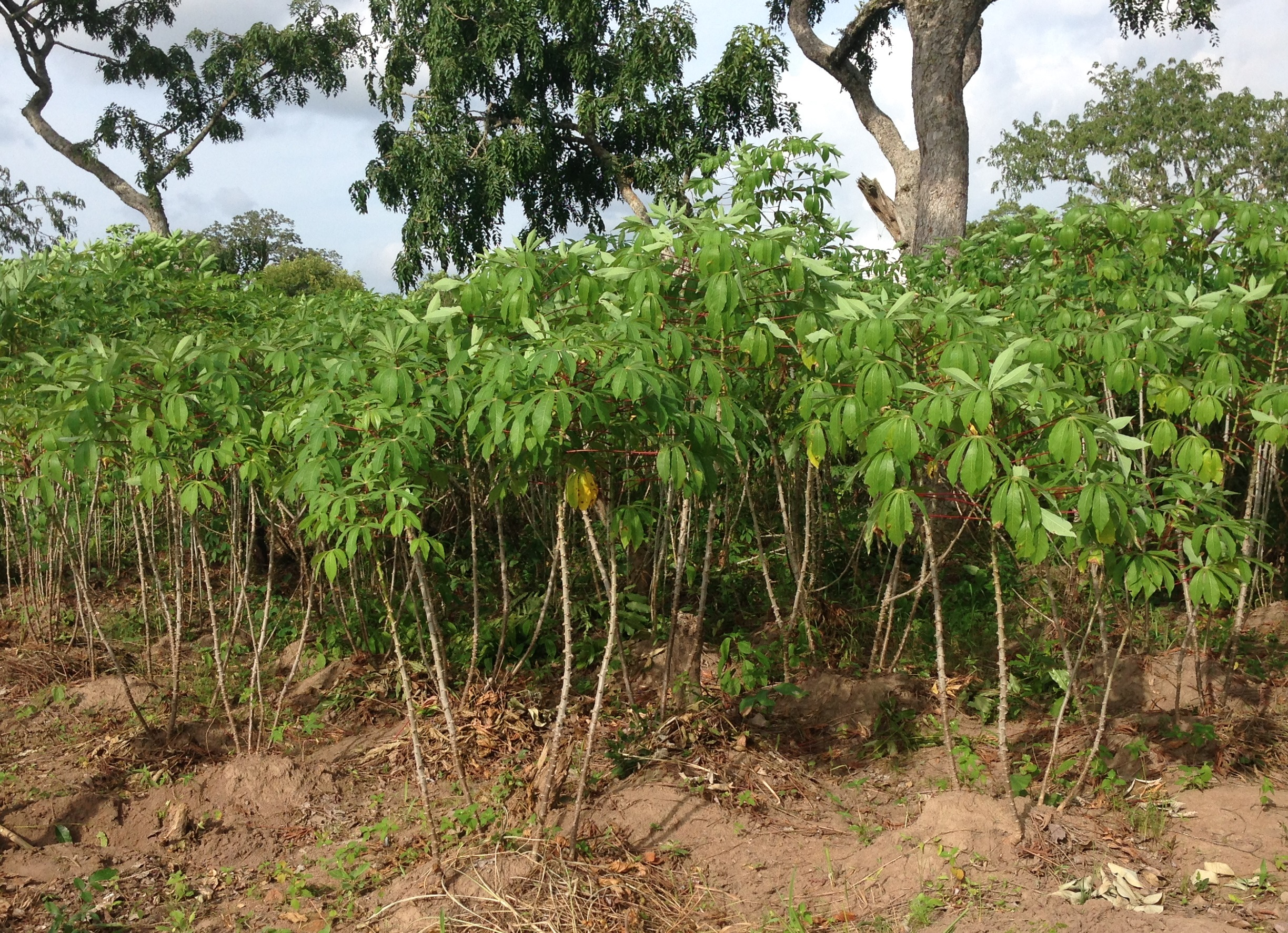 Cassava field near Bondoukou